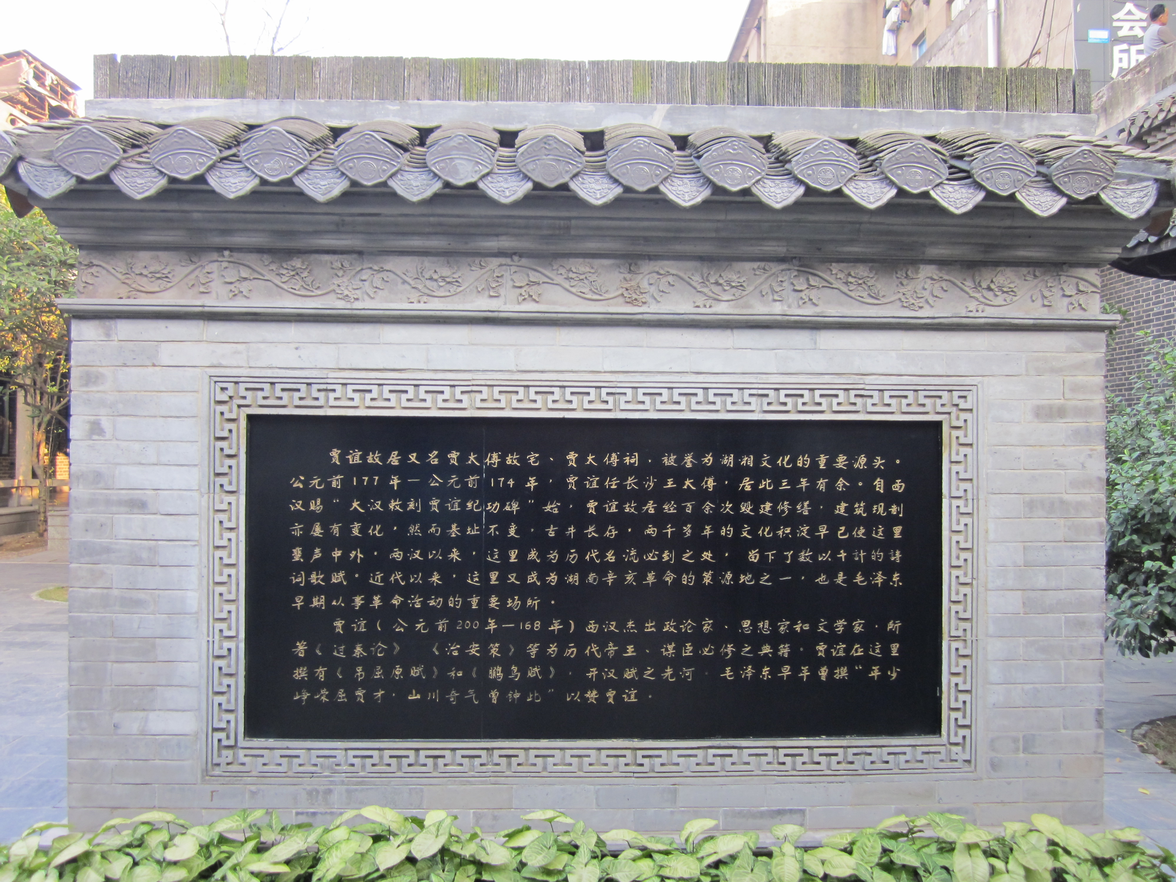 Former residence is located in China jia yi changsha in hunan liberation west road and peace at the street corner, the former residence of hunan province jia yi is protected units of cultural relics.